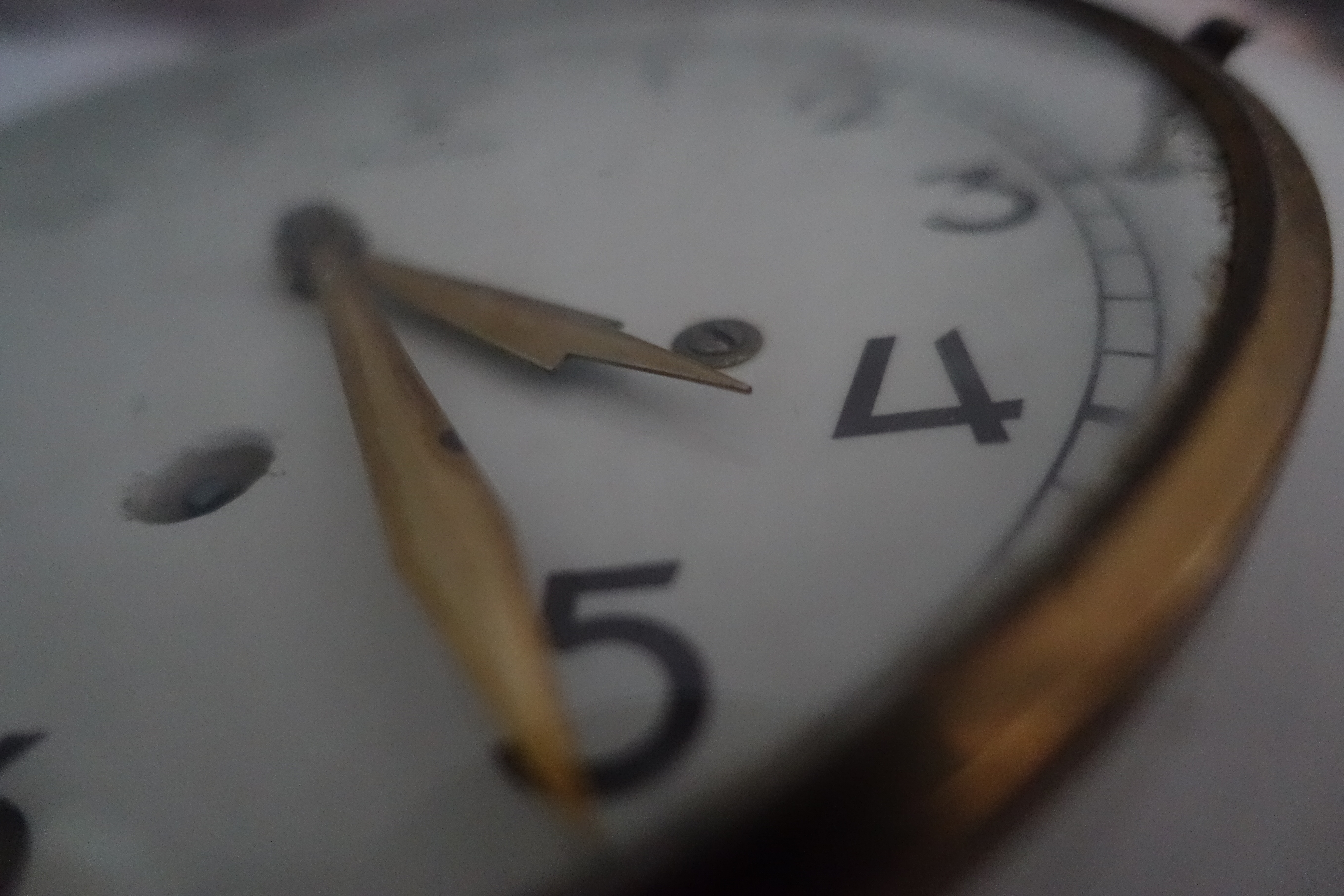 Picture of an old clock close up.